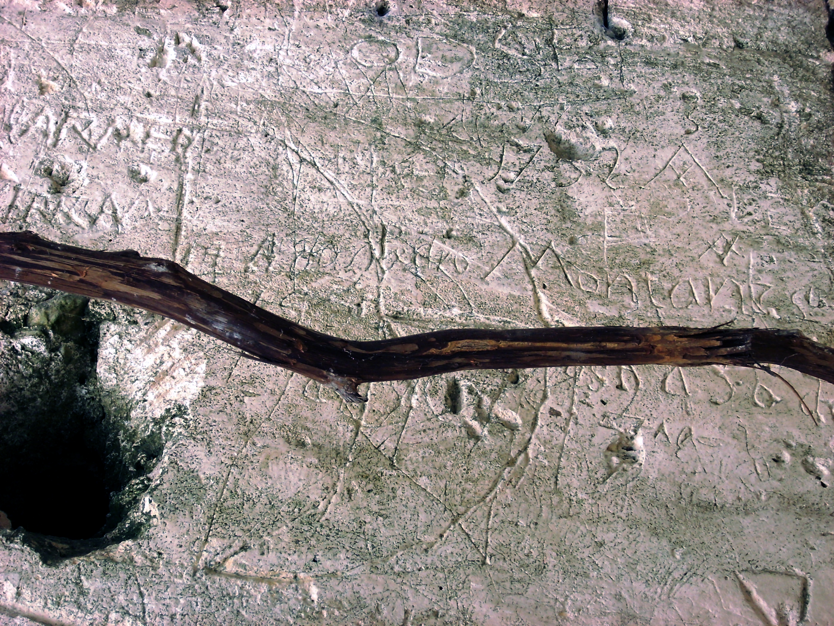 Spanish colonial graffiti at the Maya site of La Blanca, Peten, Guatemala, bearing the name of Pedro Montañes and the year 1752.